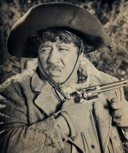 Chris-Pin Martin in American Empire - publicity still (original image cropped : see source)